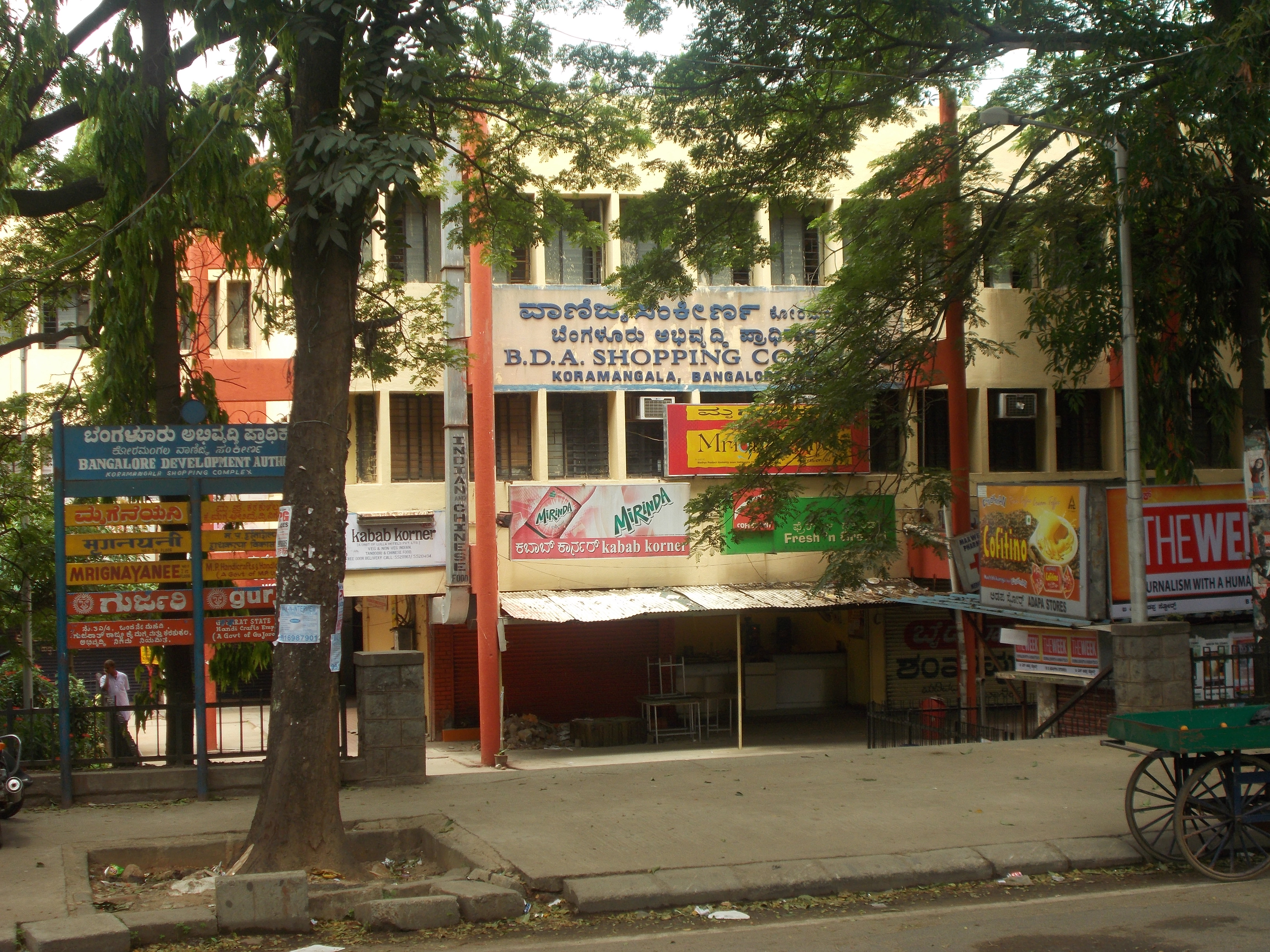 A shopping complex built by BDA (Bangalore Development Authority) on Inner Ring Road, Koramangala, Bangalore. BDA Complexes exist one for each location which fall under BBMP (Bruhat Bangalore Mahanagara Palige i.e Greater Bangalore Municipal Corporation) in Bangalore